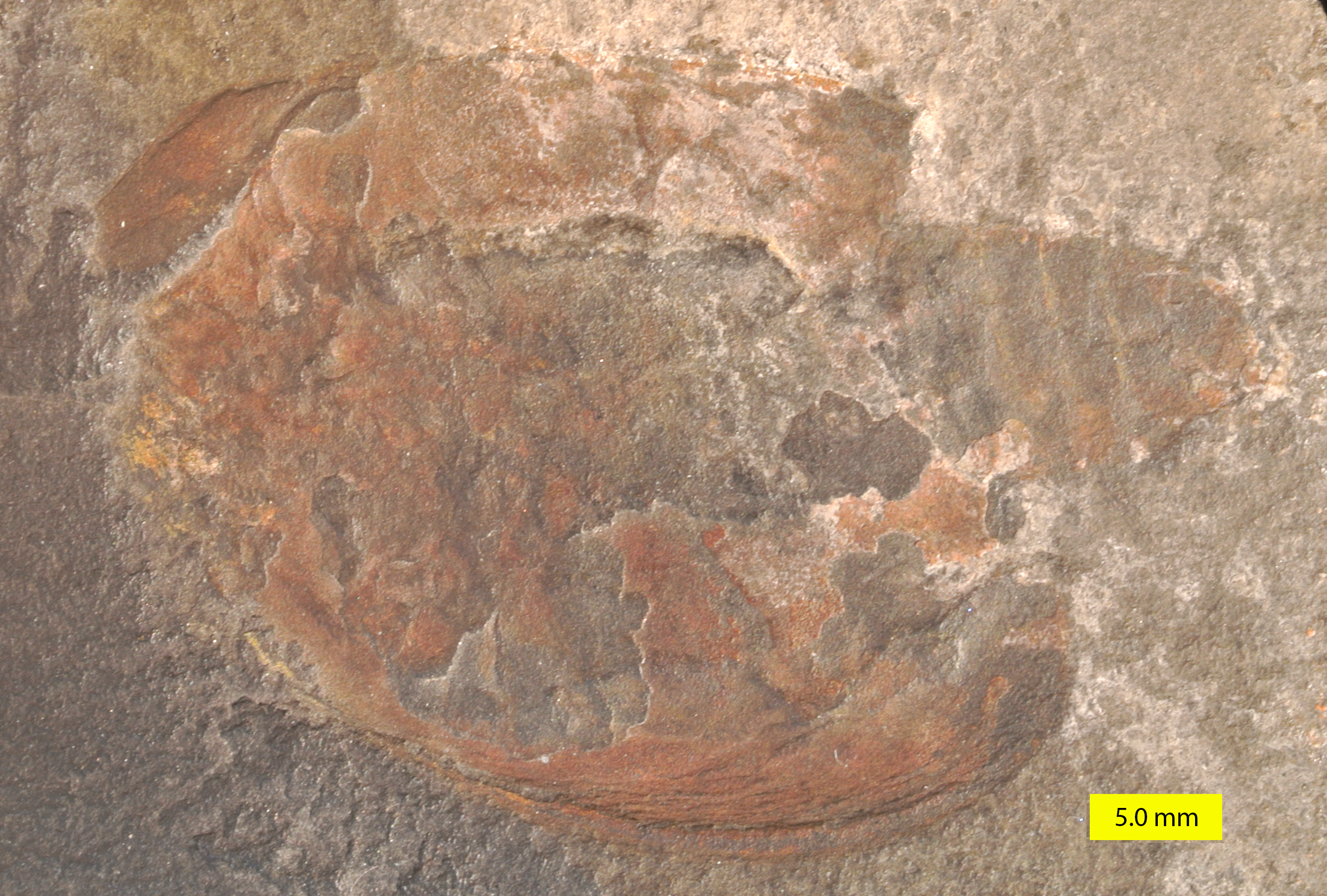 Canadaspis perfecta from the Burgess Shale (Middle Cambrian) of British Columbia, Canada.